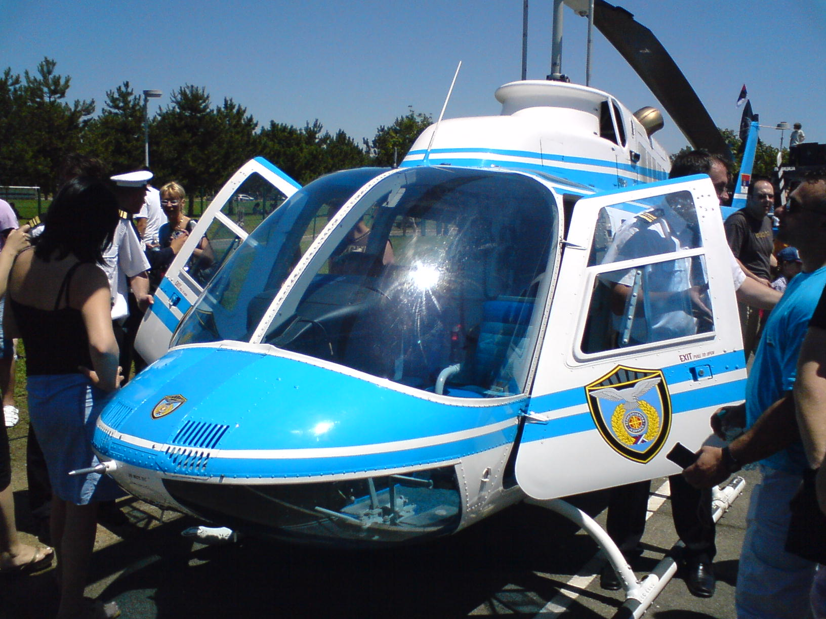 Bell 206,Helicopter unit of Serbian Ministry of Internal Affairs.